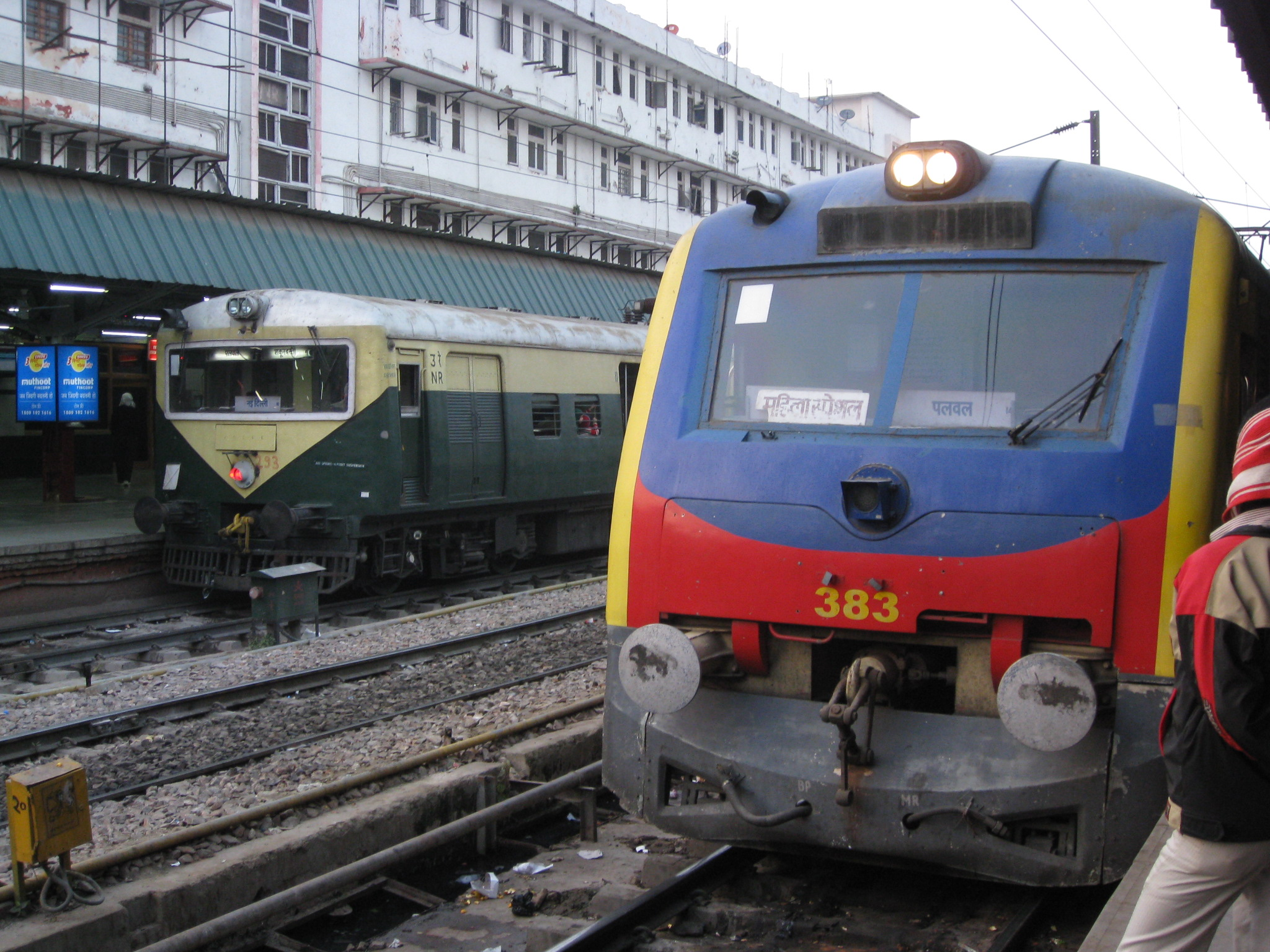 EMU and MEMU fleets of Delhi local railway.